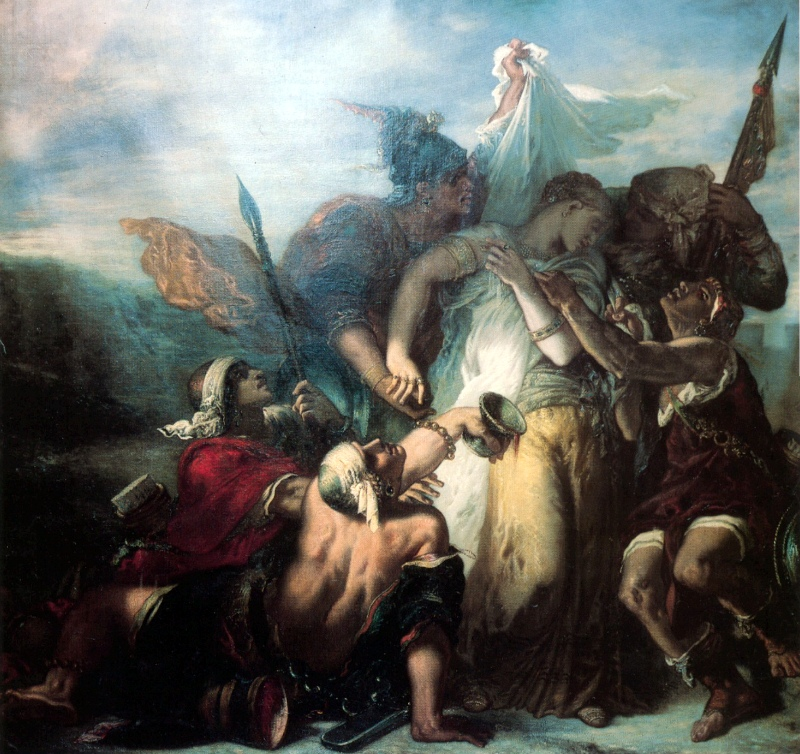 The Song of Songs